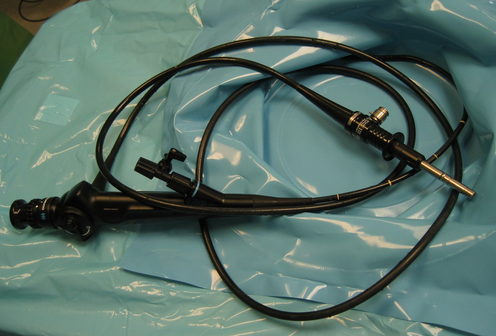 A cystoscope in an operating theatre, prior to a cystoscopy, in the North London Nuffield Hospital.